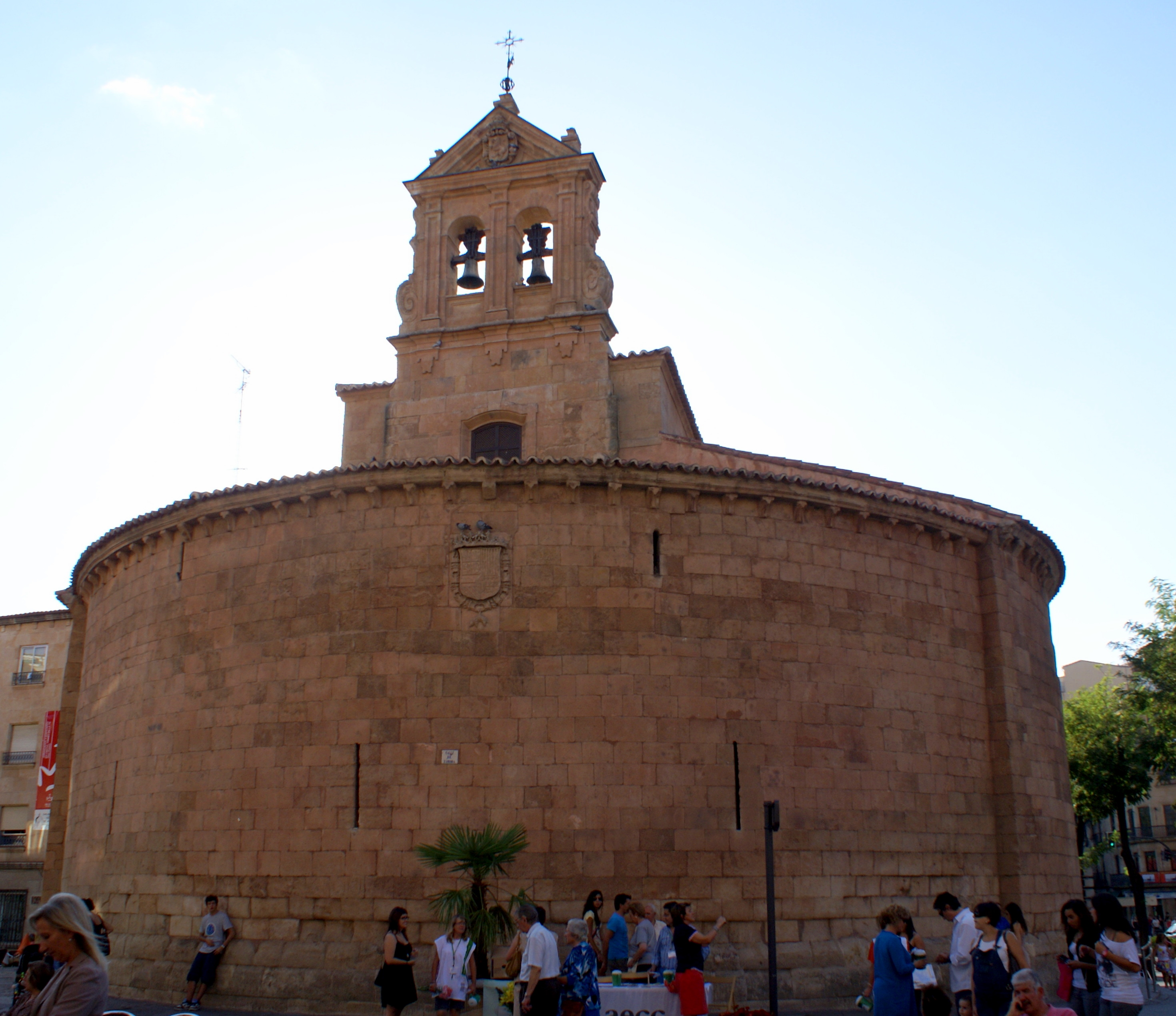 Church of San Marcos in Salamanca, Spain.